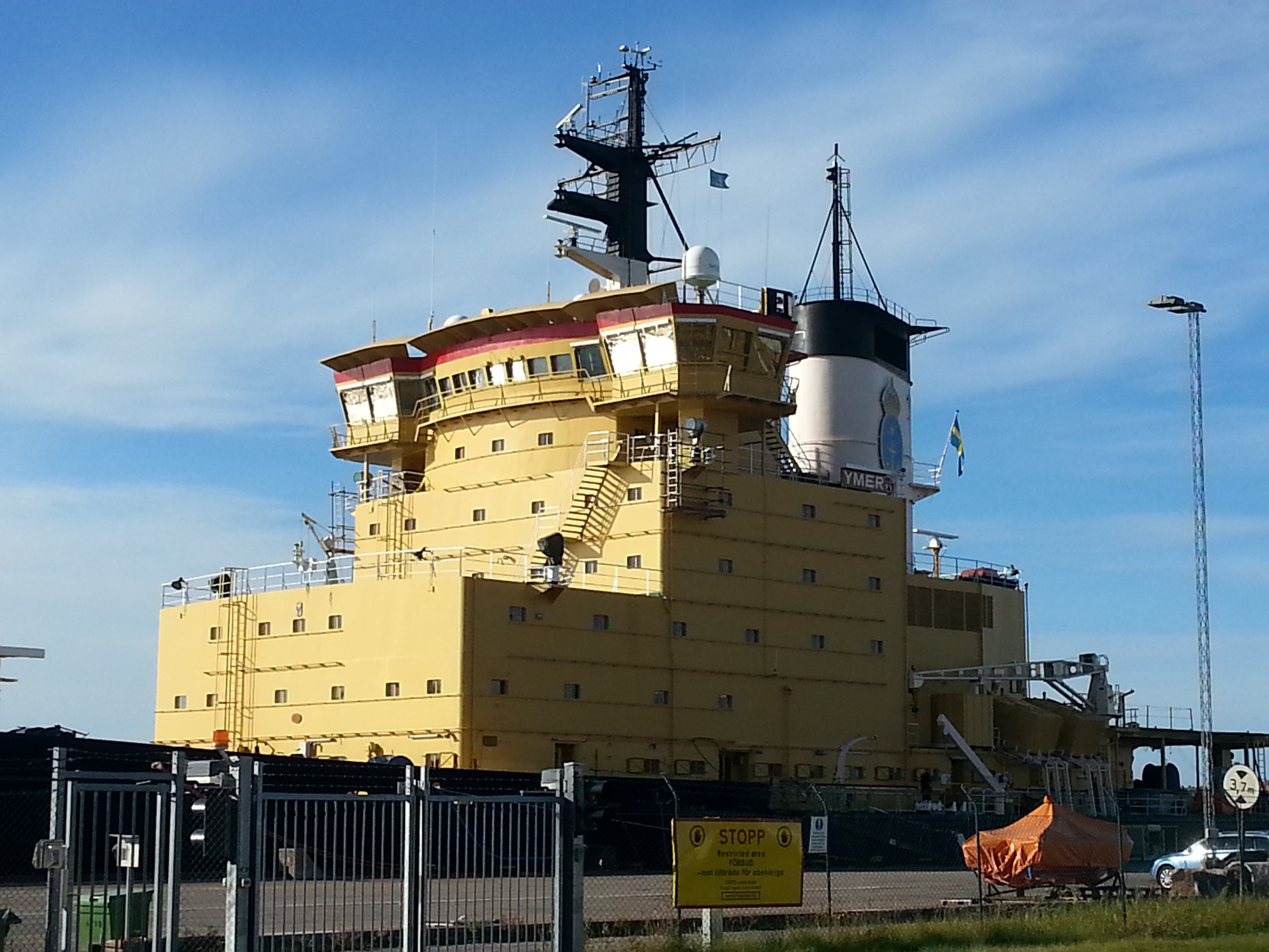 Isbrytaren Ymer